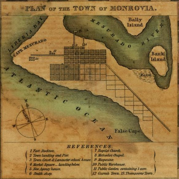 Map of an early plan of Monrovia, Liberia circa 1830.